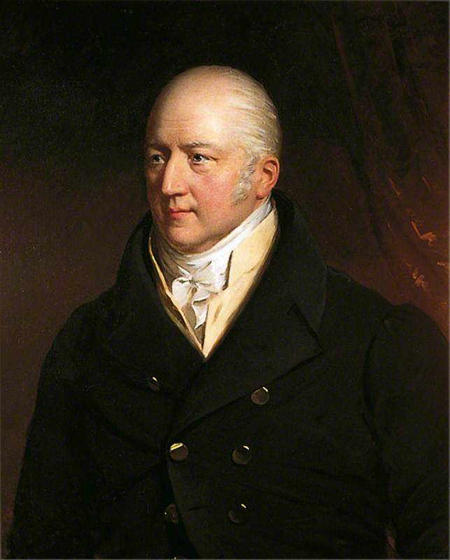 Portrait of Joseph Marryat (1757–1824), English merchant, politician and anti-abolitionist.